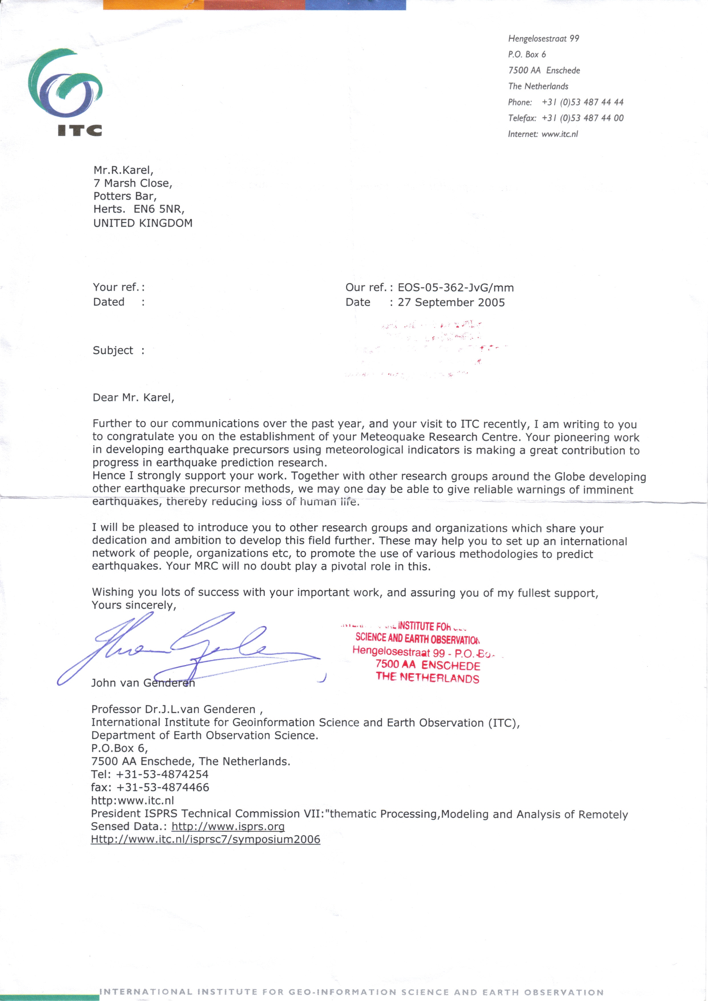 Prof. John van Genderen acknowledgement to Ronald Karel